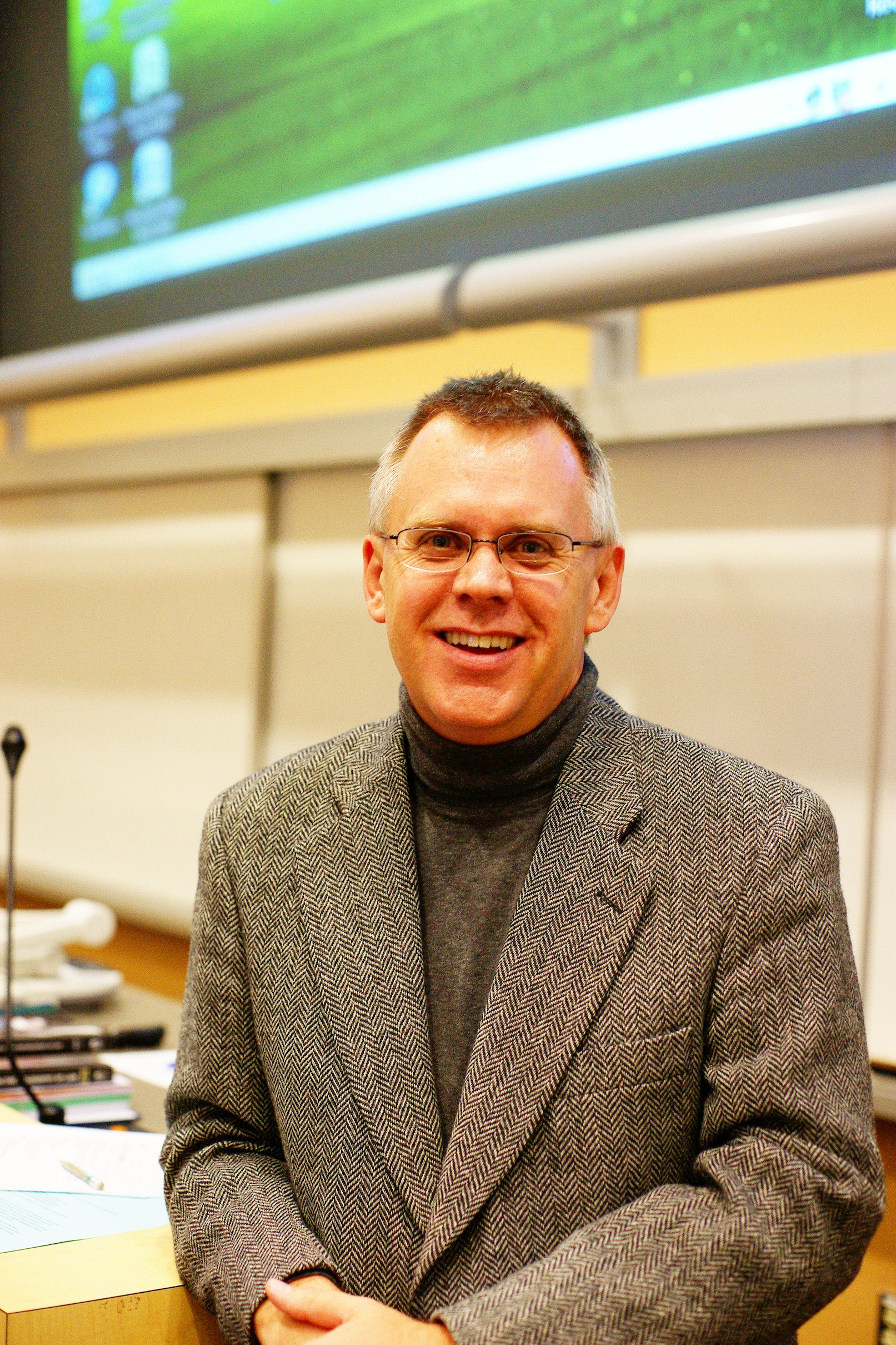 Headshot